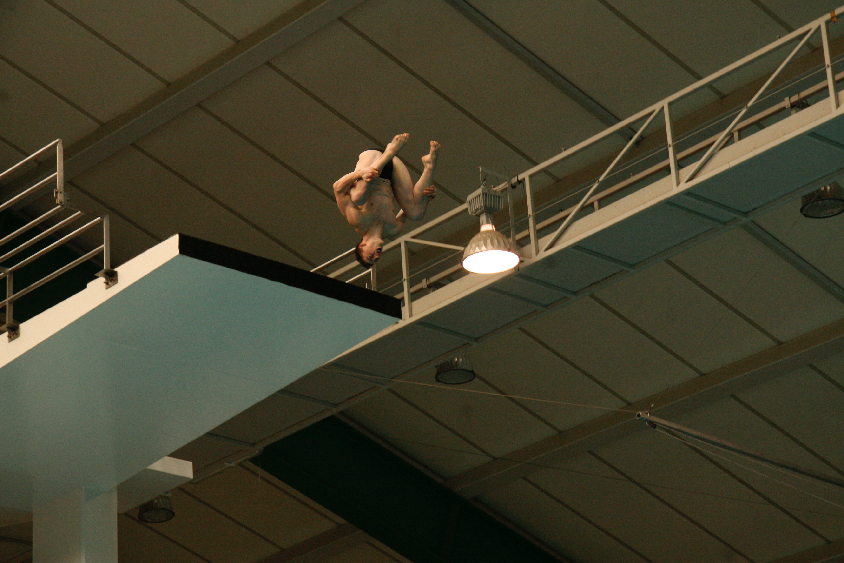 407c